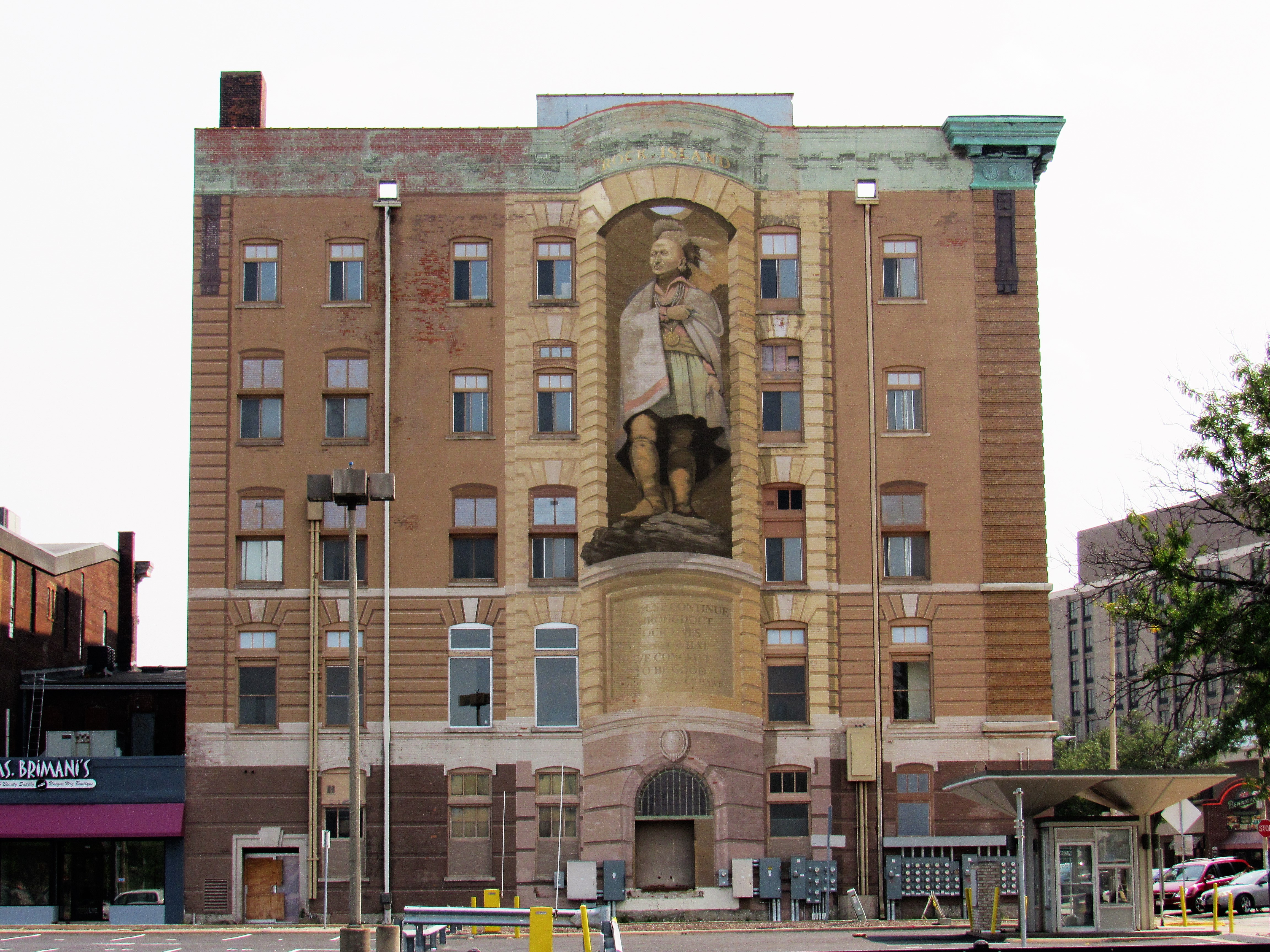 The Best Building in Rock Island, Illinois